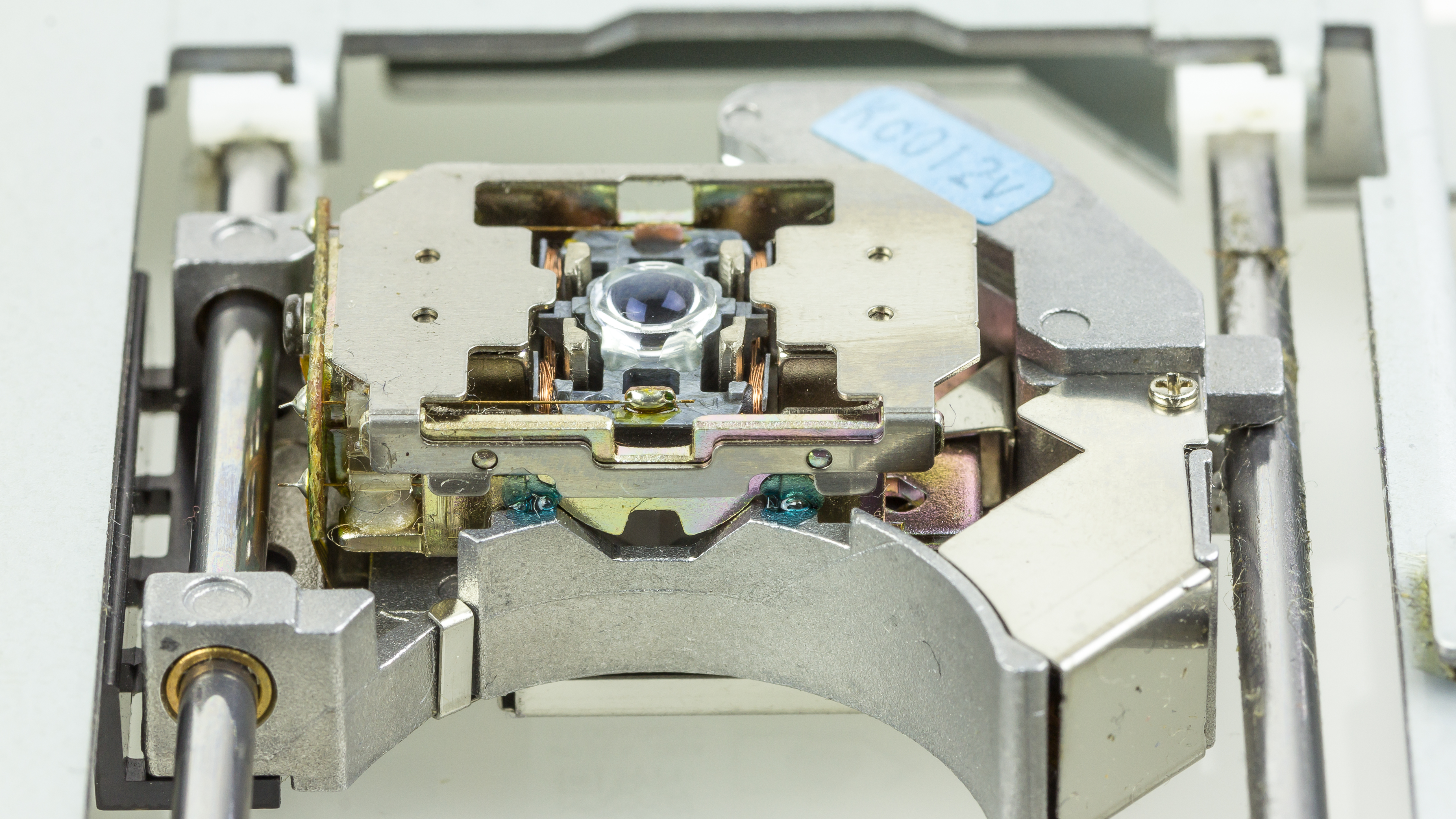 Plextor PX-W8432Ti - laser-lens-unit